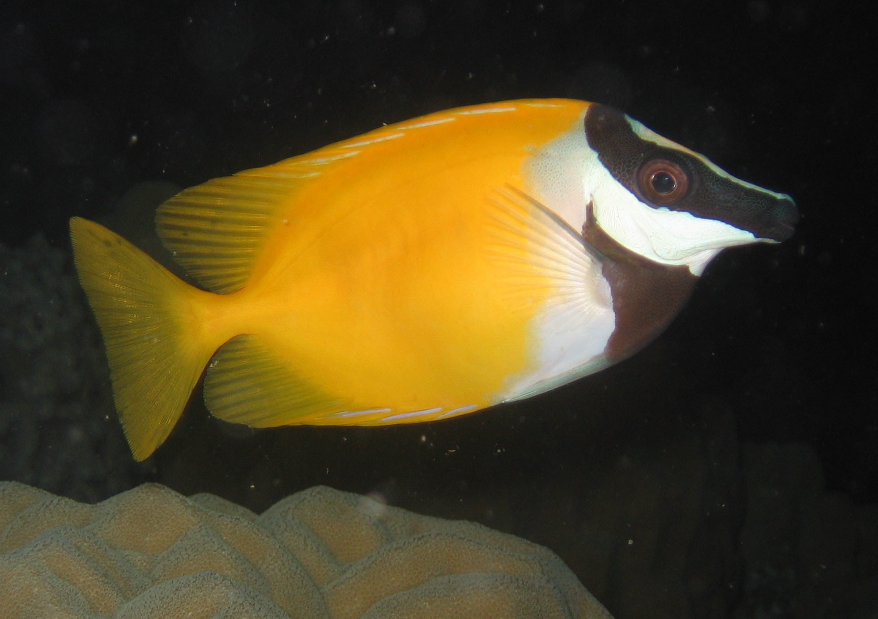 Foxface rabbitfish (Siganus vulpinus) Image ID: reef0581, NOAA's Coral Kingdom Collection Location: Chuuk, Federated States of Micronesia